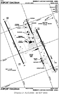 Presidente Juscelino Kubitschek Intl. Airport.